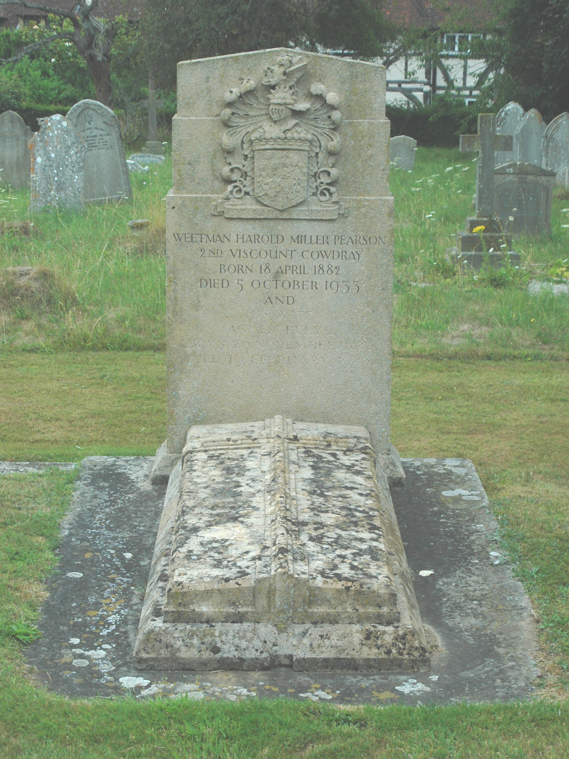 Grave of Harold Pearson, 2nd Viscount Cowdray at St Mary's parish church, Easebourne, West Sussex.